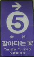 Seoul subway, transfer sign line 5